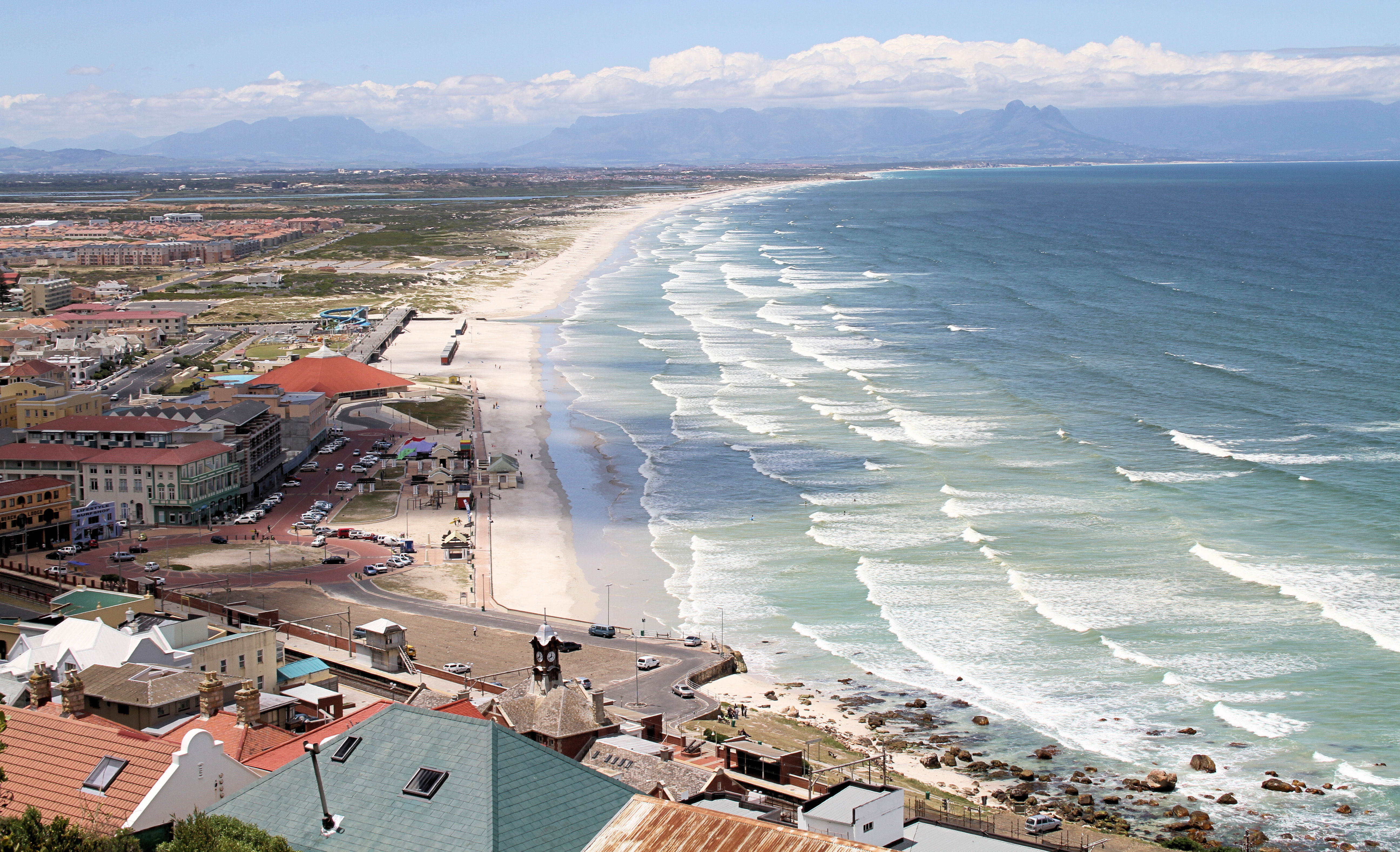 Muizenberg from Boyes Drive